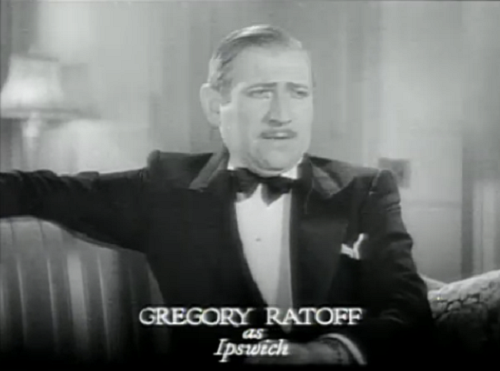 Gregory Ratoff as Samuel 'Sam' Ipswich in the "Professional Sweetheart" film